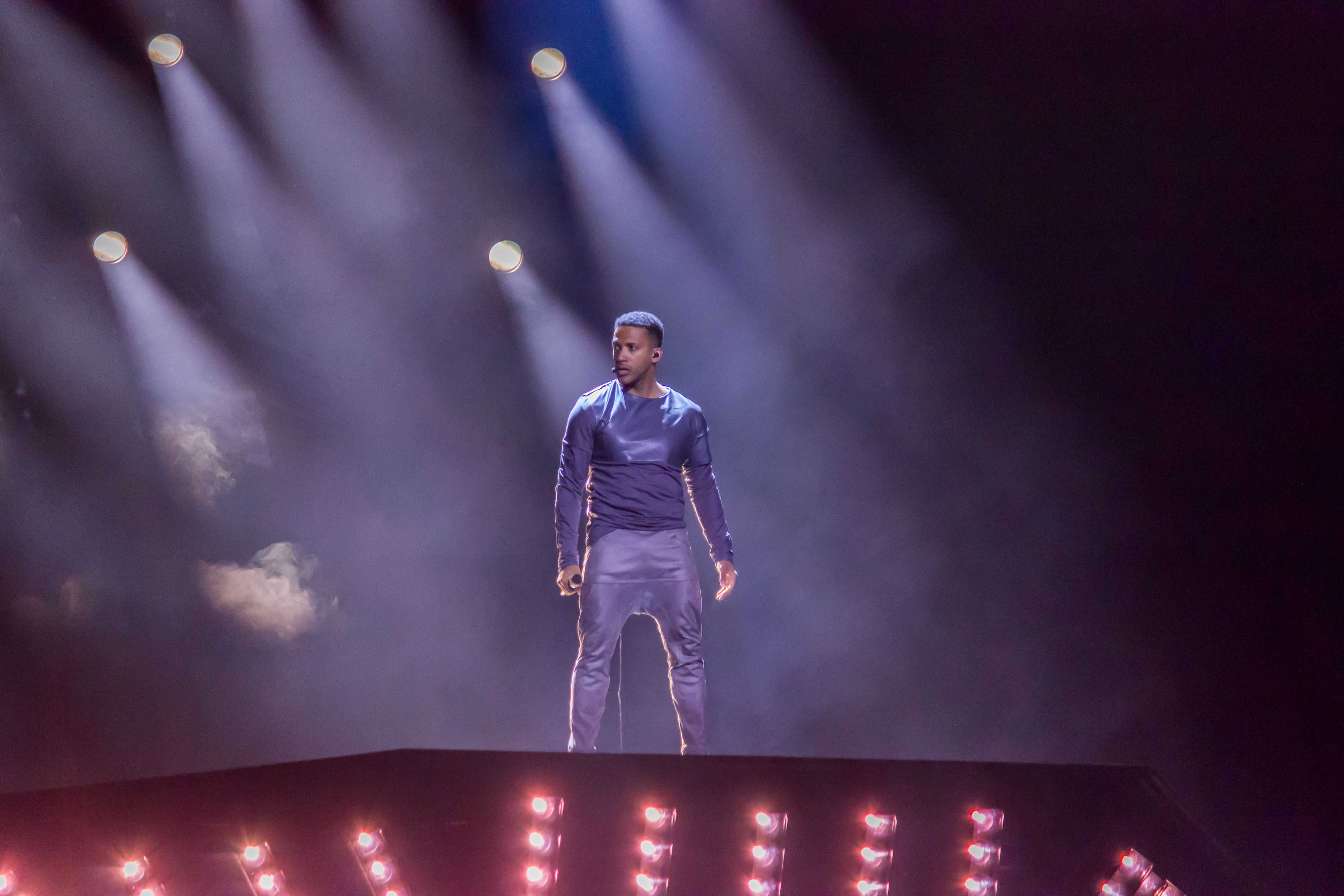 Cesár Sampson representing Austria with the song "Nobody but You" during a rehearsal before the first semi final of the Eurovision Song Contest 2018 in Lisbon.